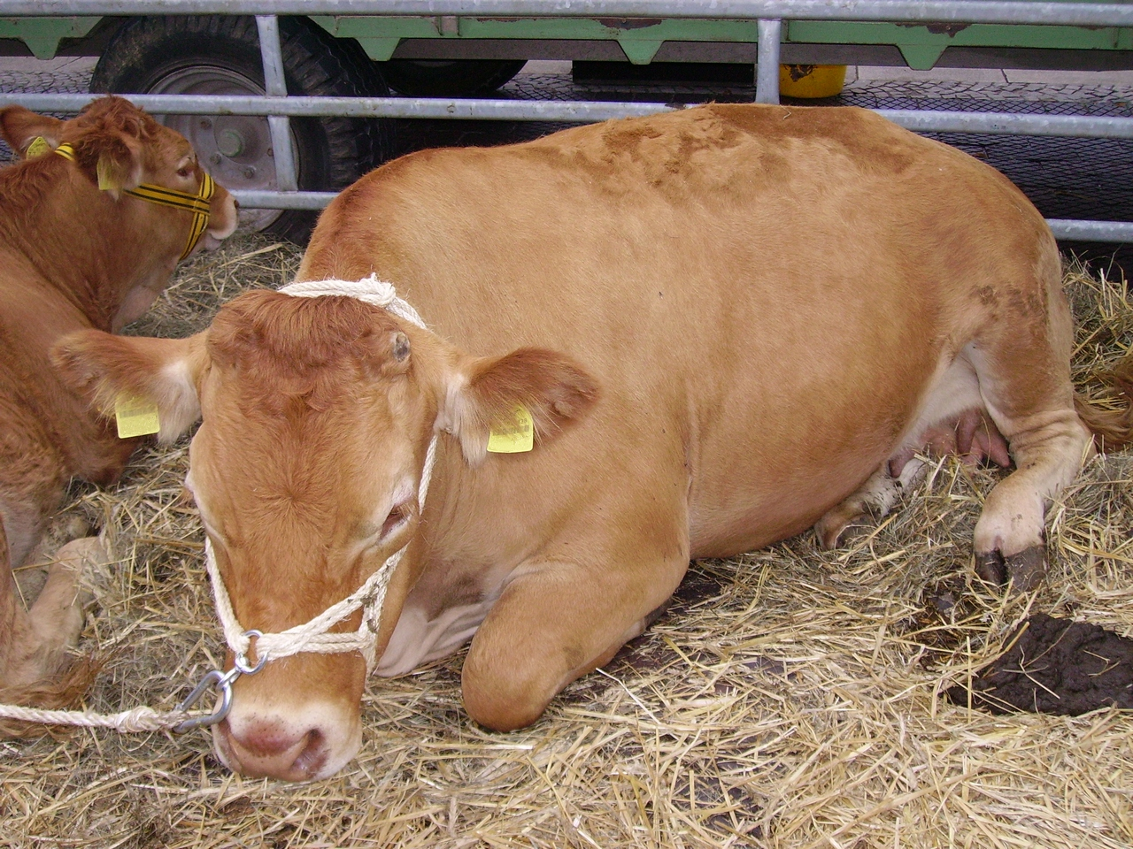 A limousin cow